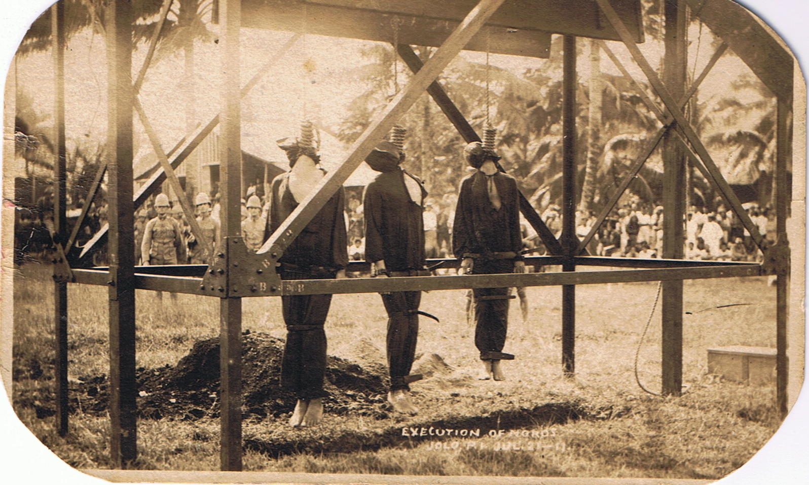 Three Moros rebels hung in Jolo on July 23, 1911